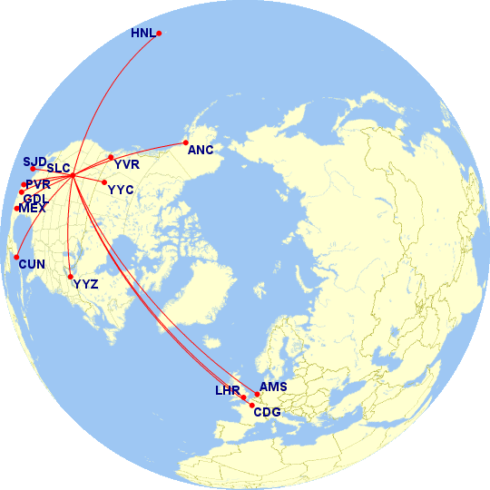 Nonstop flights from Salt Lake City outside of the contiguous United States.